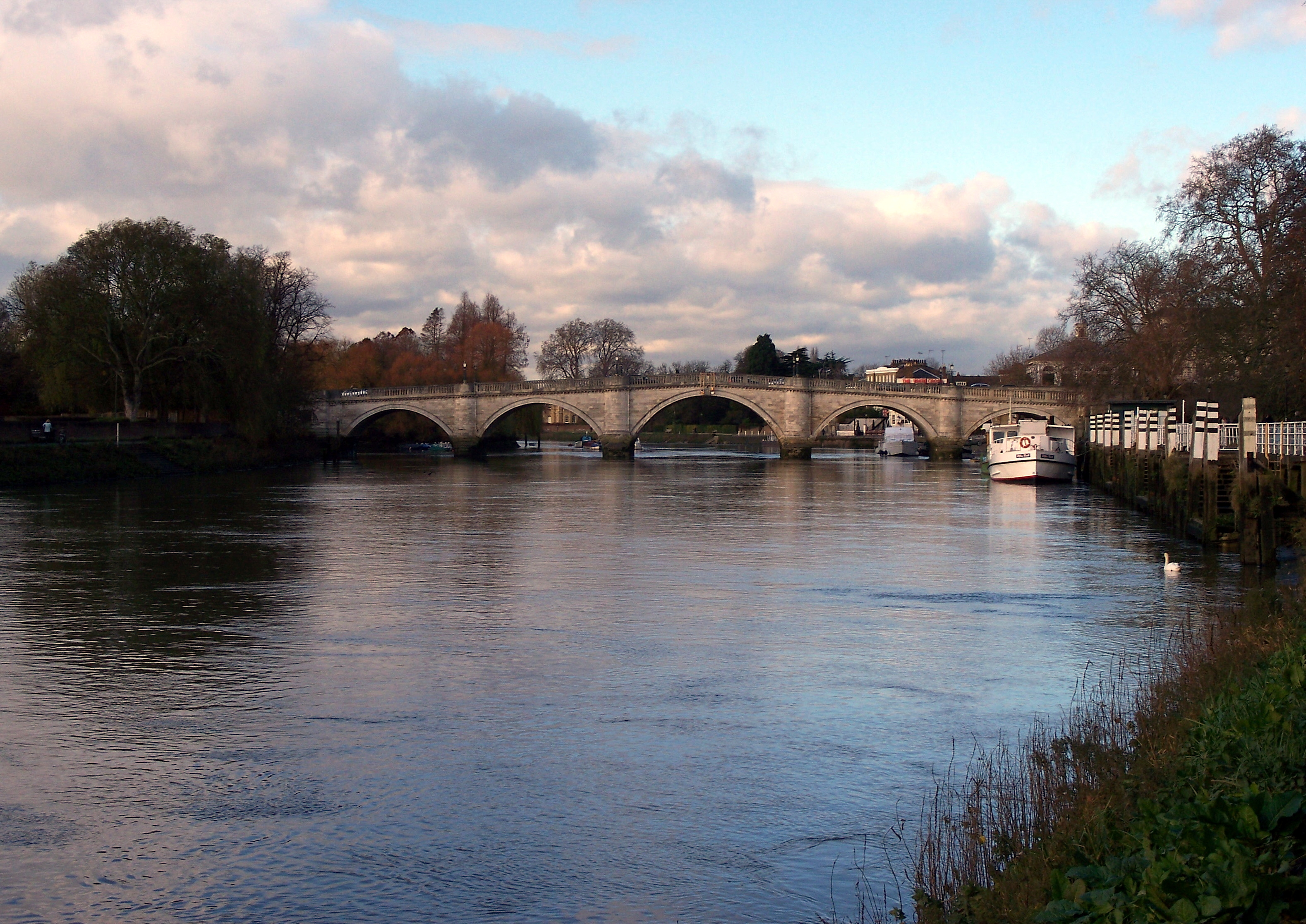 Richmond Bridge, London